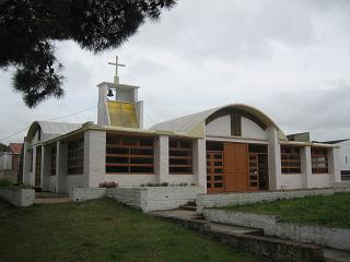 Iglesia de Lucila del Mar.